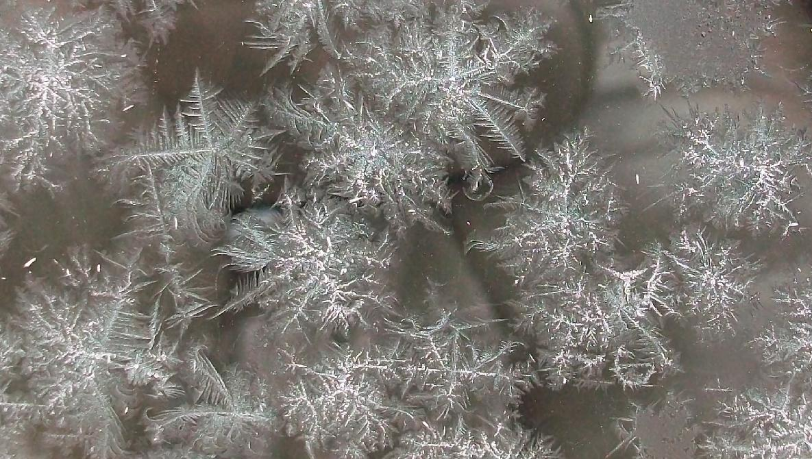 Photograph taken by me on 20-Feb2010, of complex water crystals which had grown overnight on the surface of an automobile window, providing example of an emergent natural process.